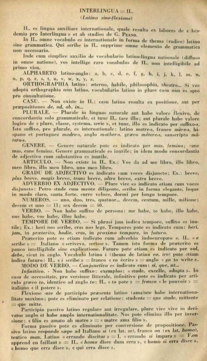 One-page summary of Latino sine flexione grammar published at the beginning of a booklet by the Academia pro Interlingua celebrating Giuseppe Peano's 70th birthday, 1928.